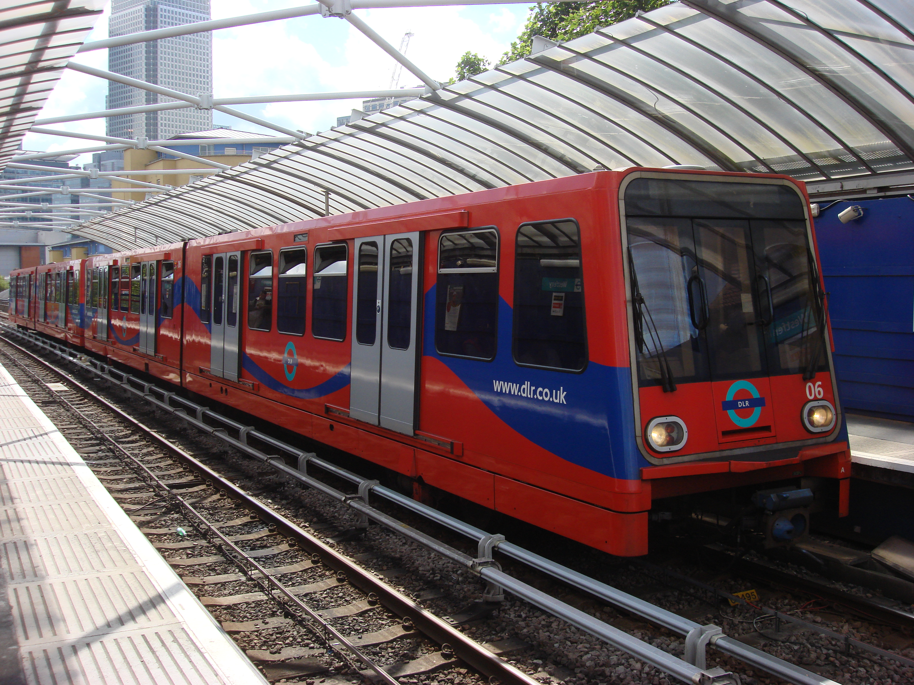 DLR train 06 at Westferry Docklands Light Railway station